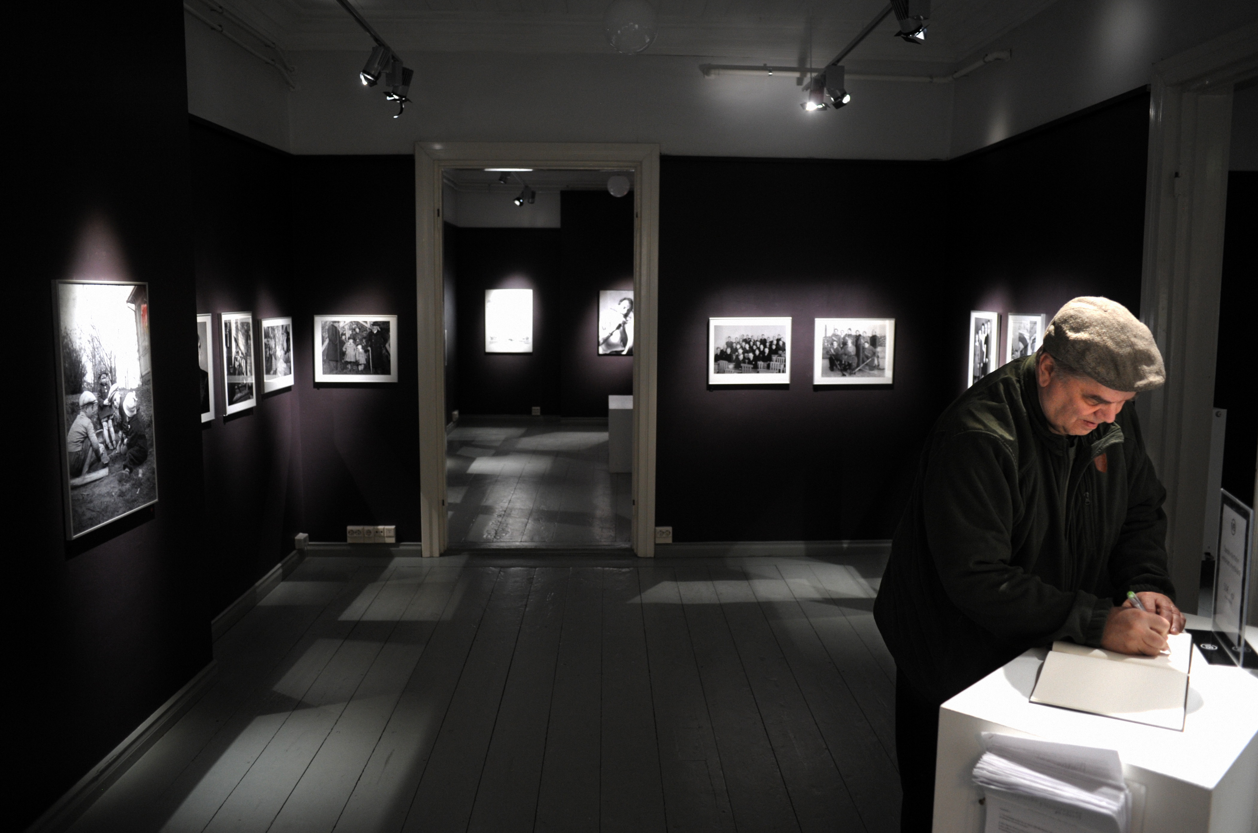 Photography center VB-keskus in Kuopio, inside